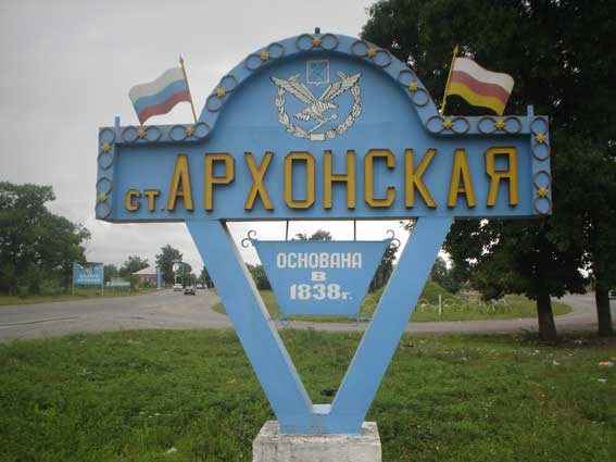 Entering Arkhonskaya stanitsa. North Ossetia - Alania Republic, Russia.